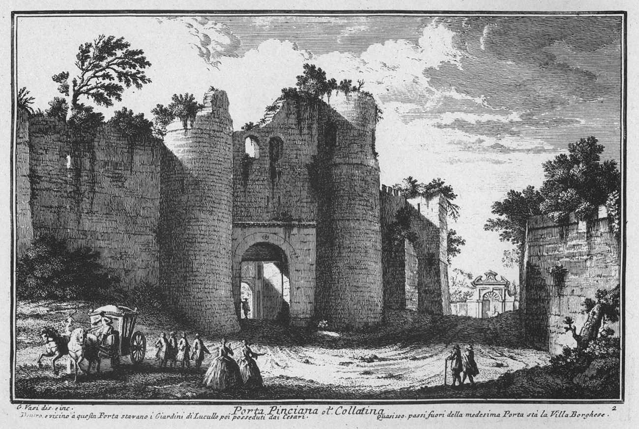 1) Porta Pinciana; 2) (lost) gate of Vigna Ascani, one the estates which were bought by the Borghese; 3) gate of Villa Medici.